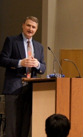 Paul Copan speaking at Tyndale University